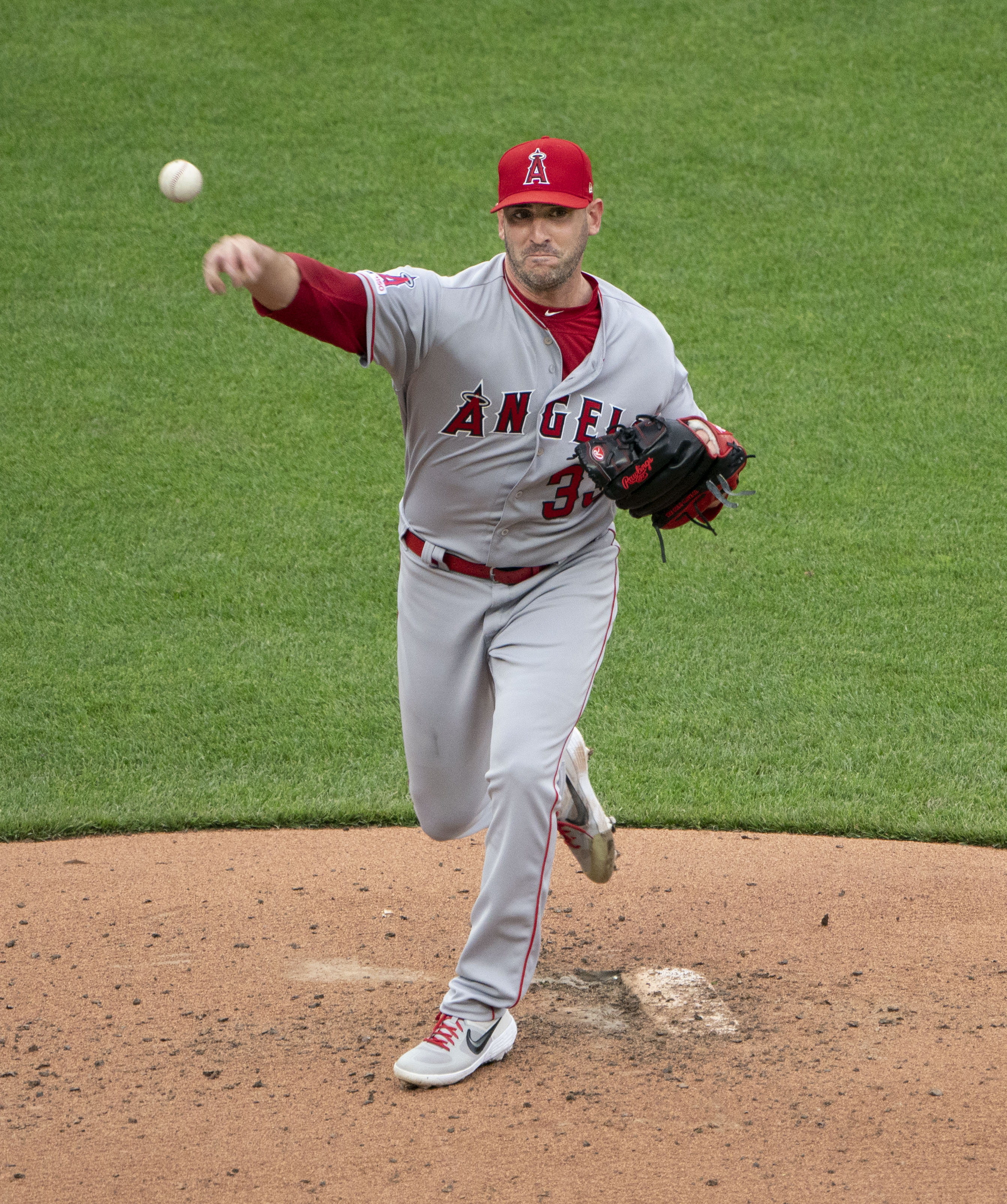 Harvey pitching for the Angels in 2019 against the Orioles